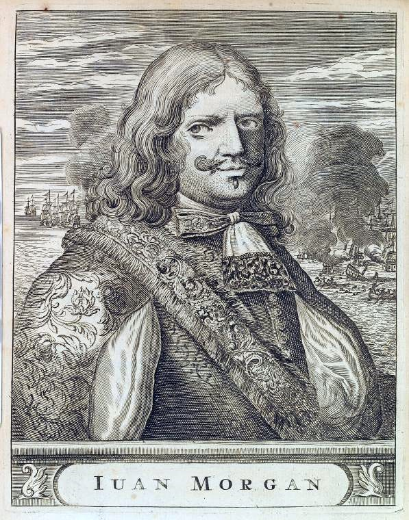 Welsh buccaneer Henry Morgan.